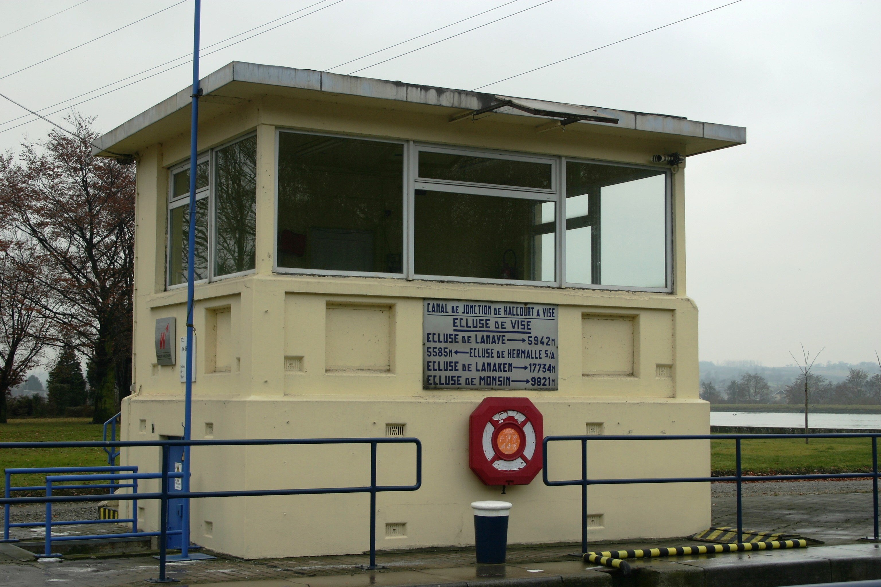 Canal lock in Visé, Belgium